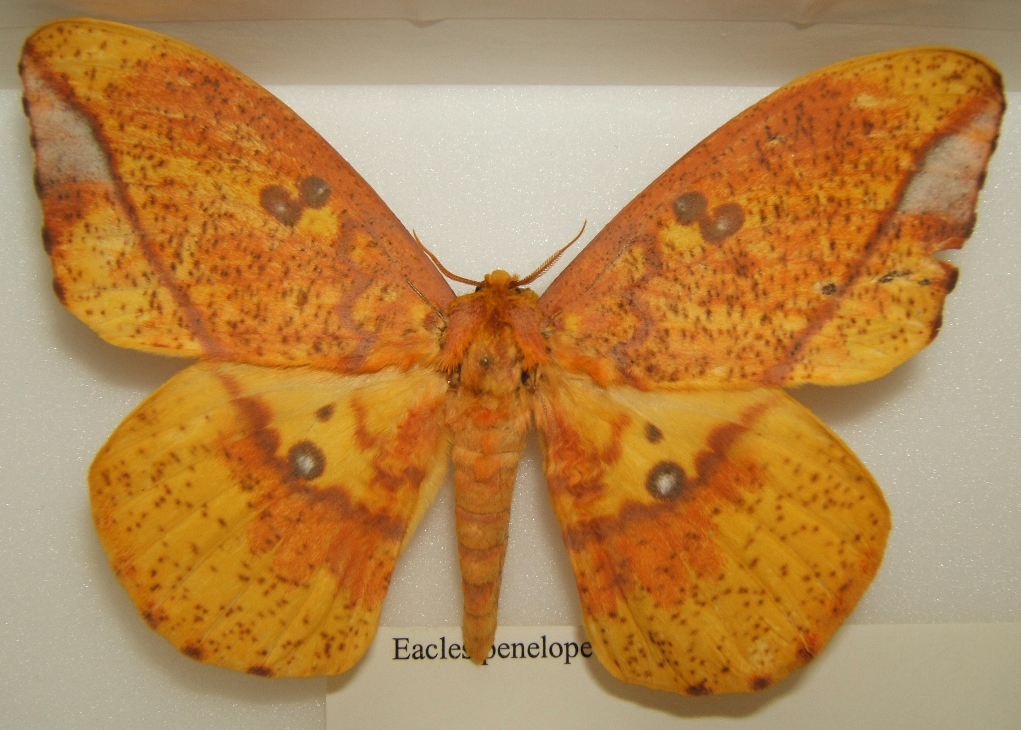 Eacles penelope adult female taken by Shawn Hanrahan at the Texas A&M University Insect Collection in College Station, Texas.